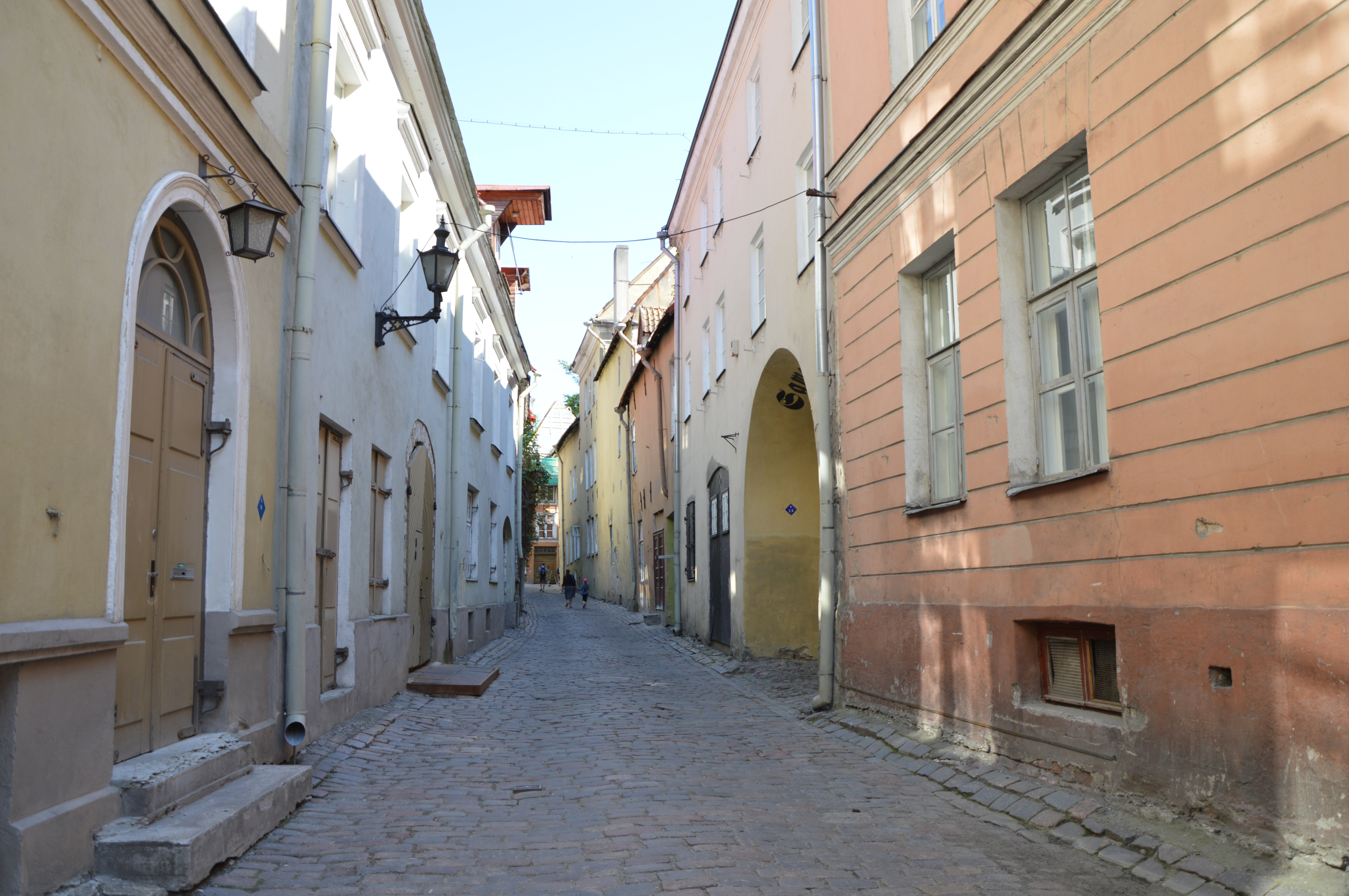 Tallinn old town